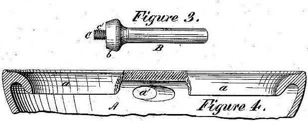 Maddock Flushing Device for Water Closet-Bowls US Patent 229, 326